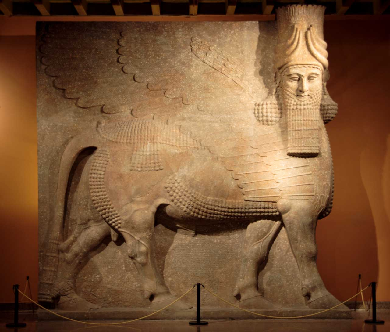 This is the Assyrian Lamassu at the Oriental Institute Museum at the University of Chicago. Gypsum (?) Khorsabad, entrance to the throne room Neo-Assyrian Period, ca. 721-705 B.C. OIM A7369 This 40 ton statue was one of a two flanking the entrance to the throne room of King Sargon II. A protective spirit known as a lamassu, it is shown as a composite being with he head of a human, the body and ears of a bull, and the wings of a bird. When viewed from the side, the creature appears to be walking; when viewed from the front, to be standing still. Thus it is actually represented with five, rather than four legs. Being approximately 2700 years old, copyright does not apply to this statue.